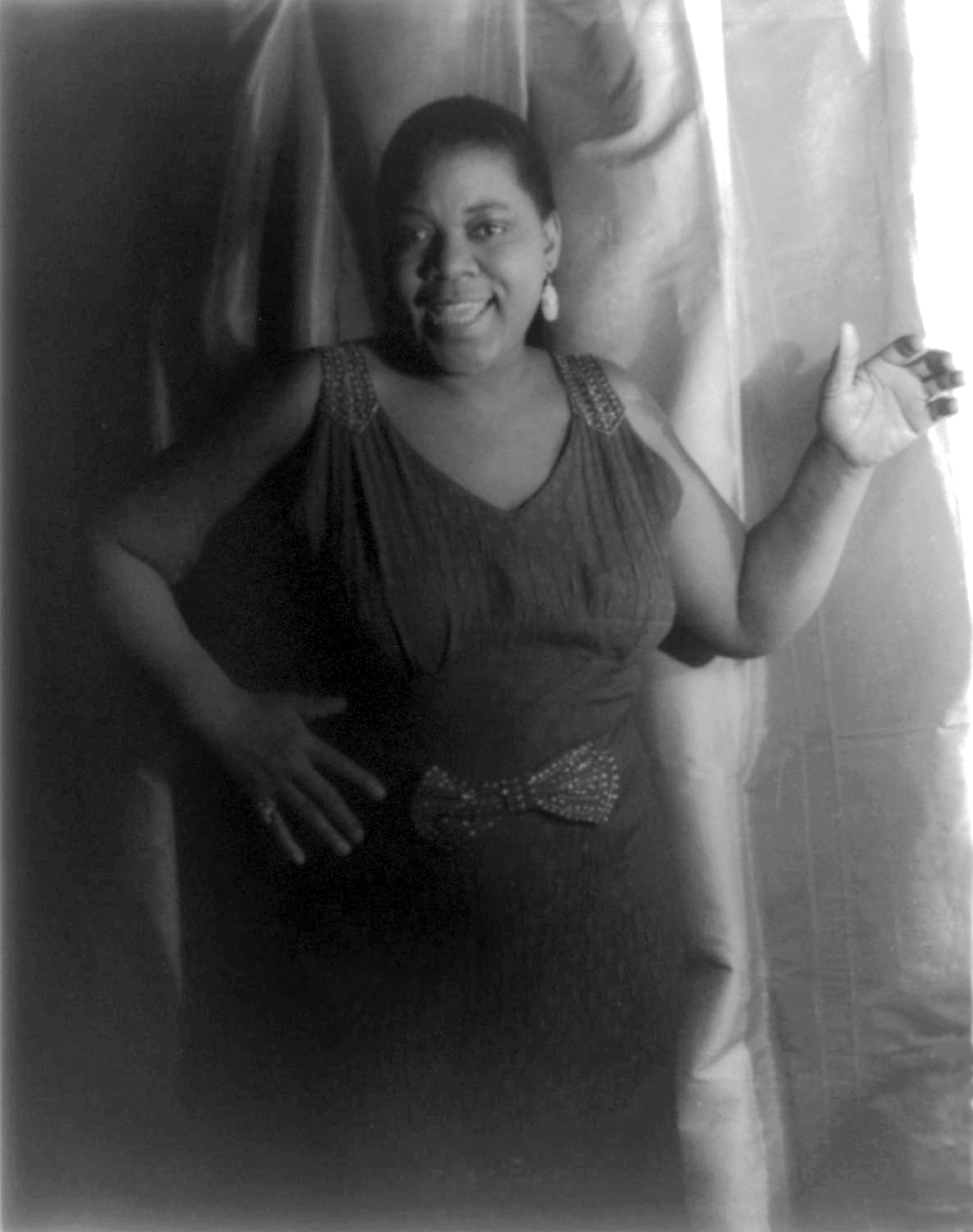 Portrait of Bessie Smith